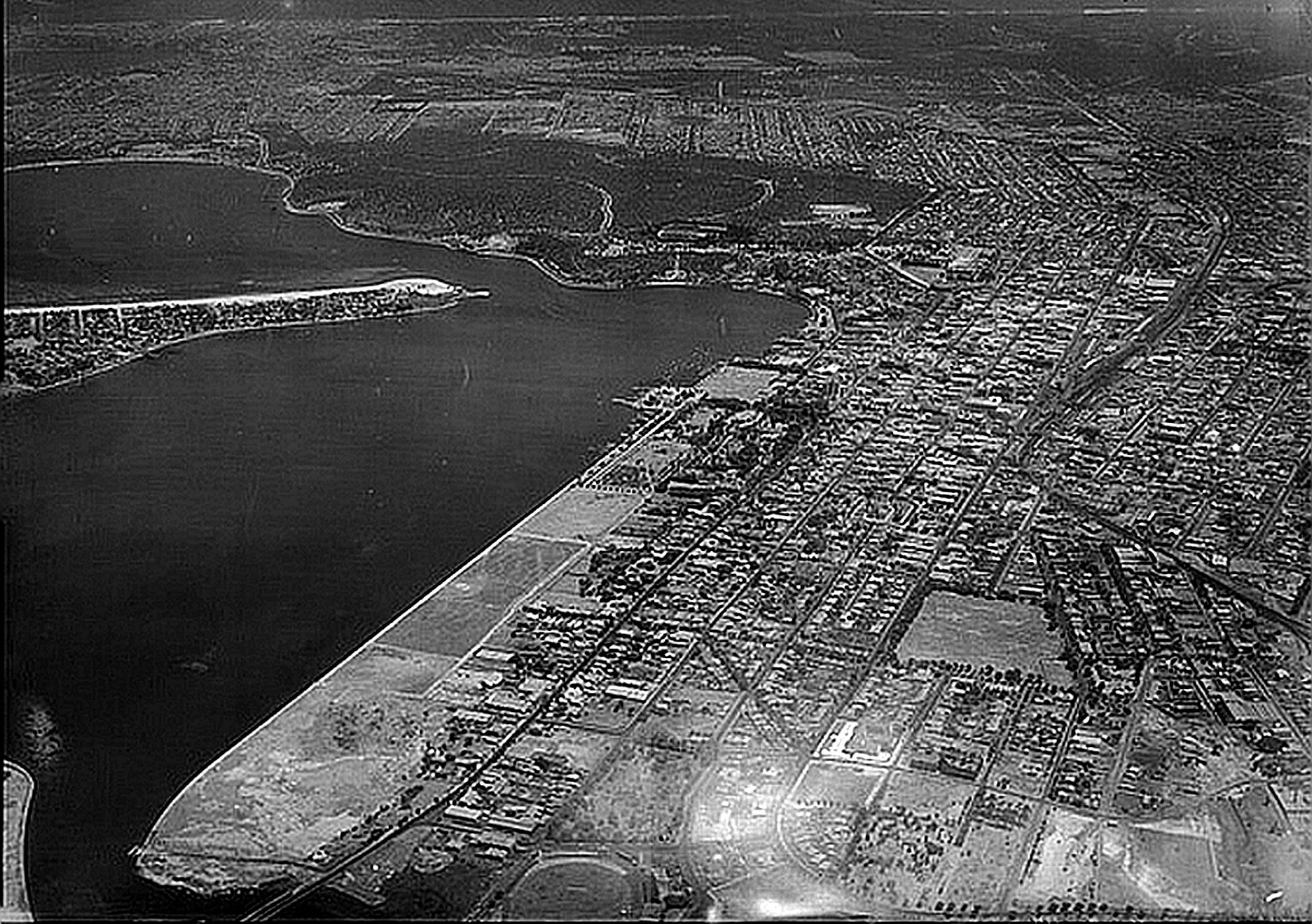 Aerial photograph of Perth Western Australia 1930's. Looking west from above Burswood penninsula note the different approach off the causeway, no Narrows bridge and that the shoreline is in its original position from Esplanade to Swan Brewery